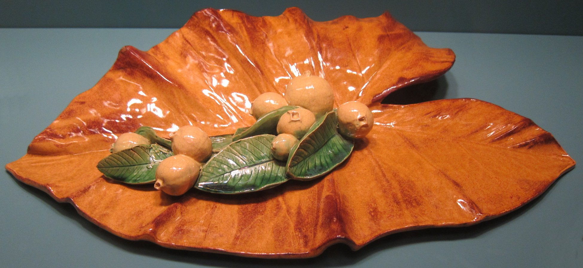 Platter in shape of taro leaf with Guava branch, manufactured by Hawaiian Potters Guild for S. & G. Gump and Company, designed by George H. Moody, glazed earthenware, c. 1940, Honolulu Museum of Art